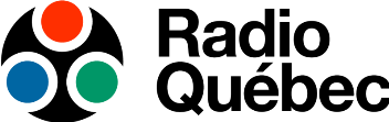 Logo for Télé-Québec